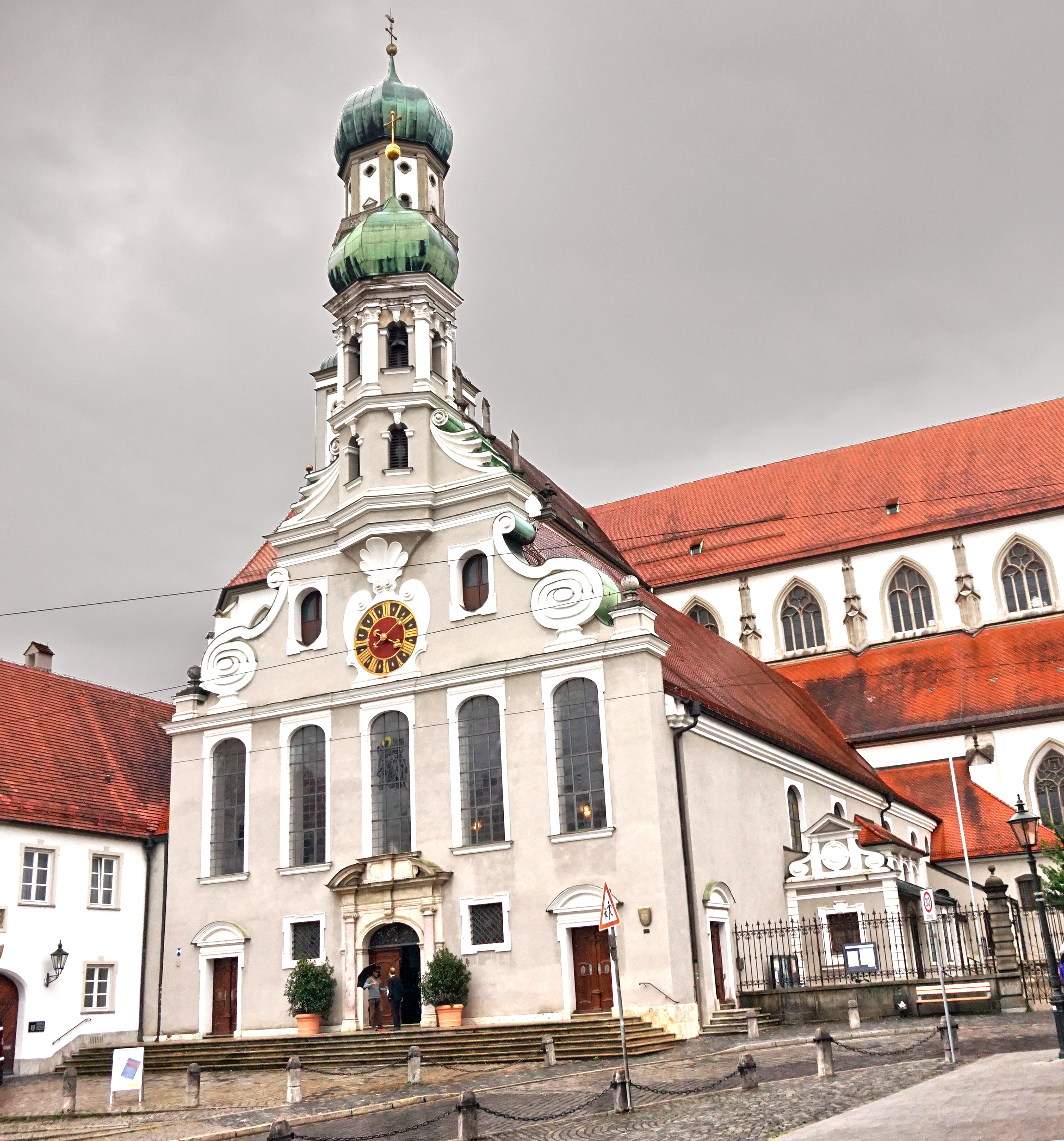 Ulrichsplatz 21, Augsburg.